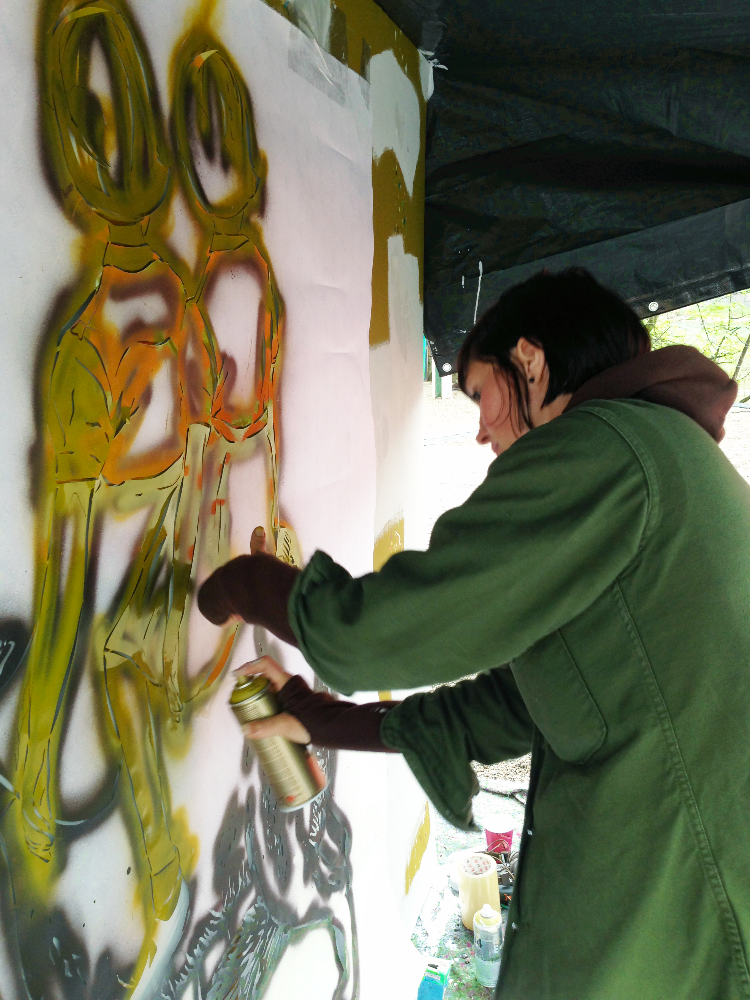 This is a picture of the American Artist Amanda Marie stencil painting in Munich, Germany during the Stroke Art Fair, May 2013